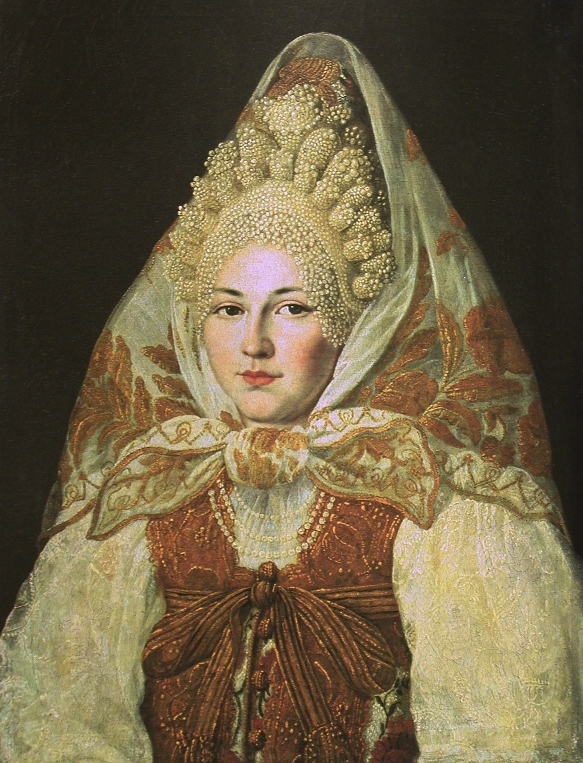 Merchant's wife from the town of Toropets in the former Pskov province (c.1850)